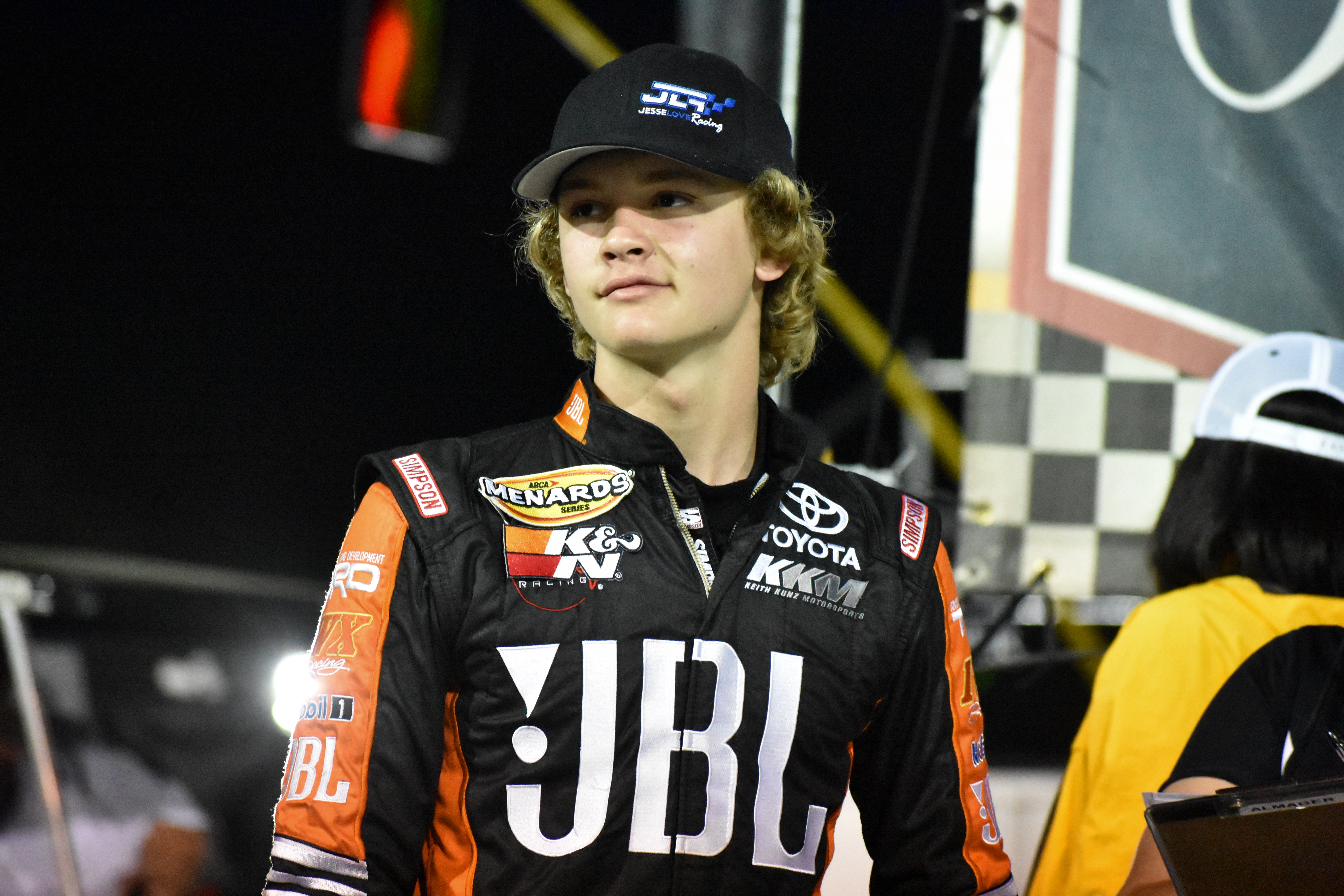 Jesse Love during driver introductions at New Smyrna Speedway in 2020